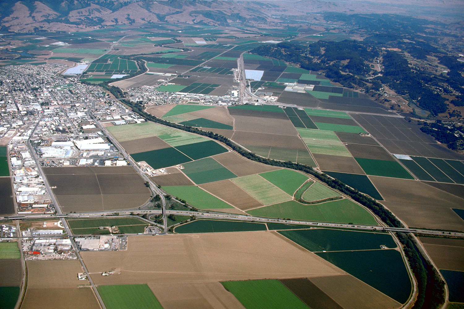 Aerial view of Watsonville, California, USA and the agricultural areas surrounding the town. This photograph shows only the southern section, about one quarter of the town. The Pajaro River meanders across the plain from top to bottom in this photograph, then runs off to empty into the Pacific Ocean about 2.5 miles (4 km) to the west (below this picture). California State Route 1 runs straight across the bottom of the picture. The river is the border between Santa Cruz County (left) and Monterey County (right). View is to the east. Coordinates: 36°54′4.73″N 121°45′24.62″W / 36.9013139°N 121.7568389°W